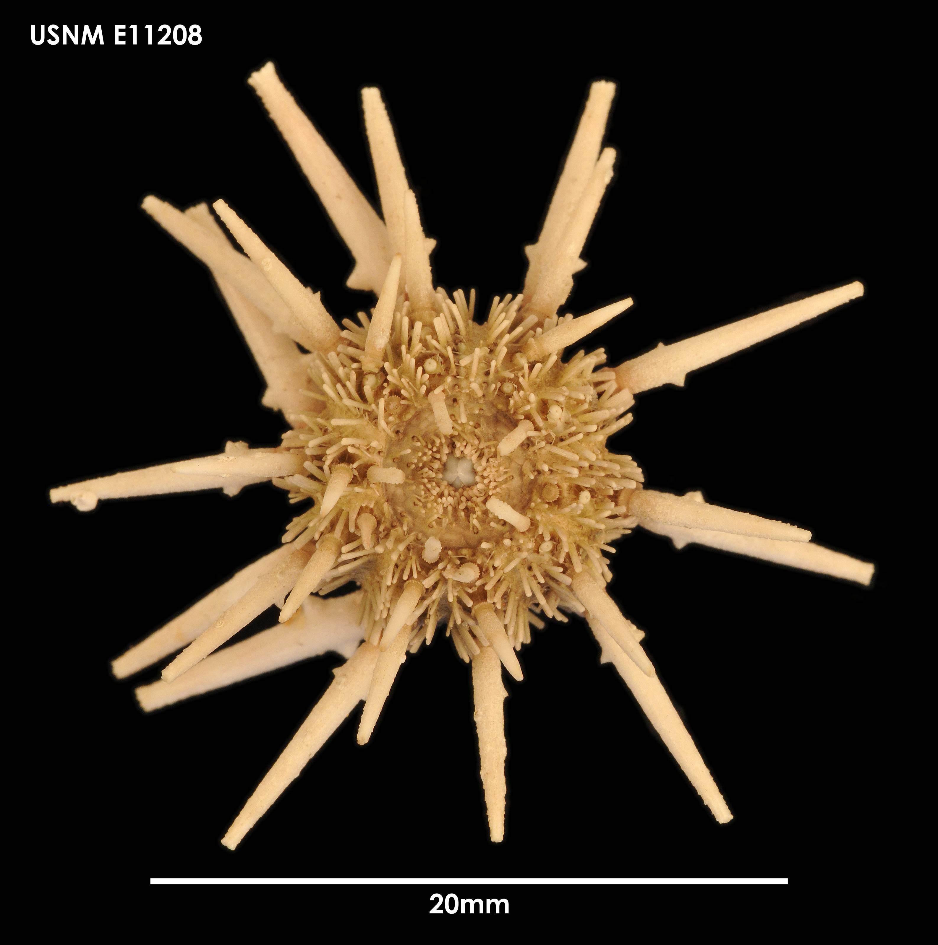 PRESERVED_SPECIMEN; Preparations: Dry; Goniocidaris umbraculum Hutton, 1878; Individual count: 3; Type status: (no data); Identified by: Chesher, R. H.; Event date: 19650219T00:00:00Z; Additional description: Ventral view, dry specimen